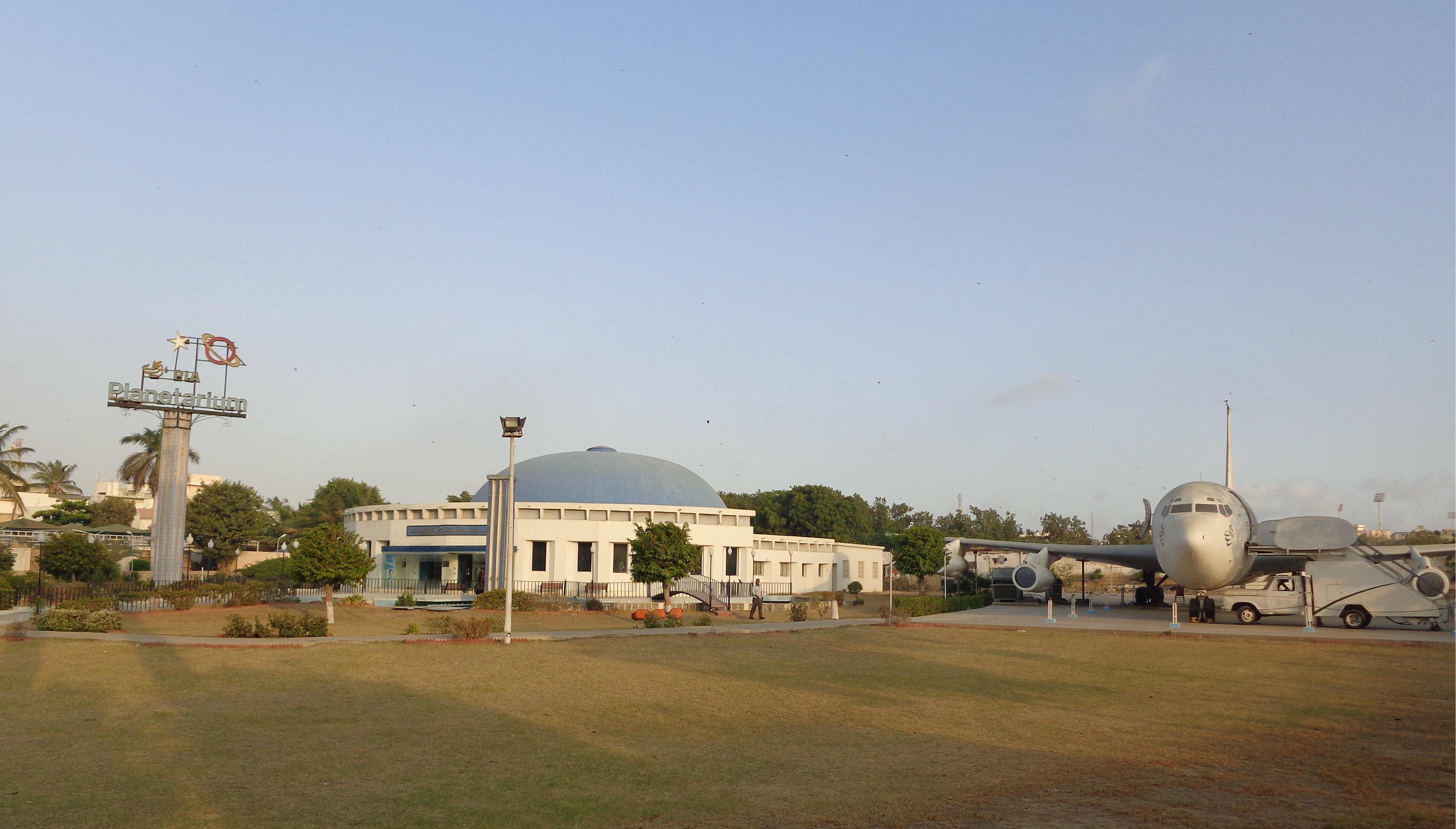 Entrance view of PIA Planetarium at Karachi. The places is considered to be one of the best places for tourism point of view and is the best adventure to visit especially for students, who belong to scientific fields like Aeronautics and Space Engineering. This is a photo of a monument in Pakistan identified as the SD-16